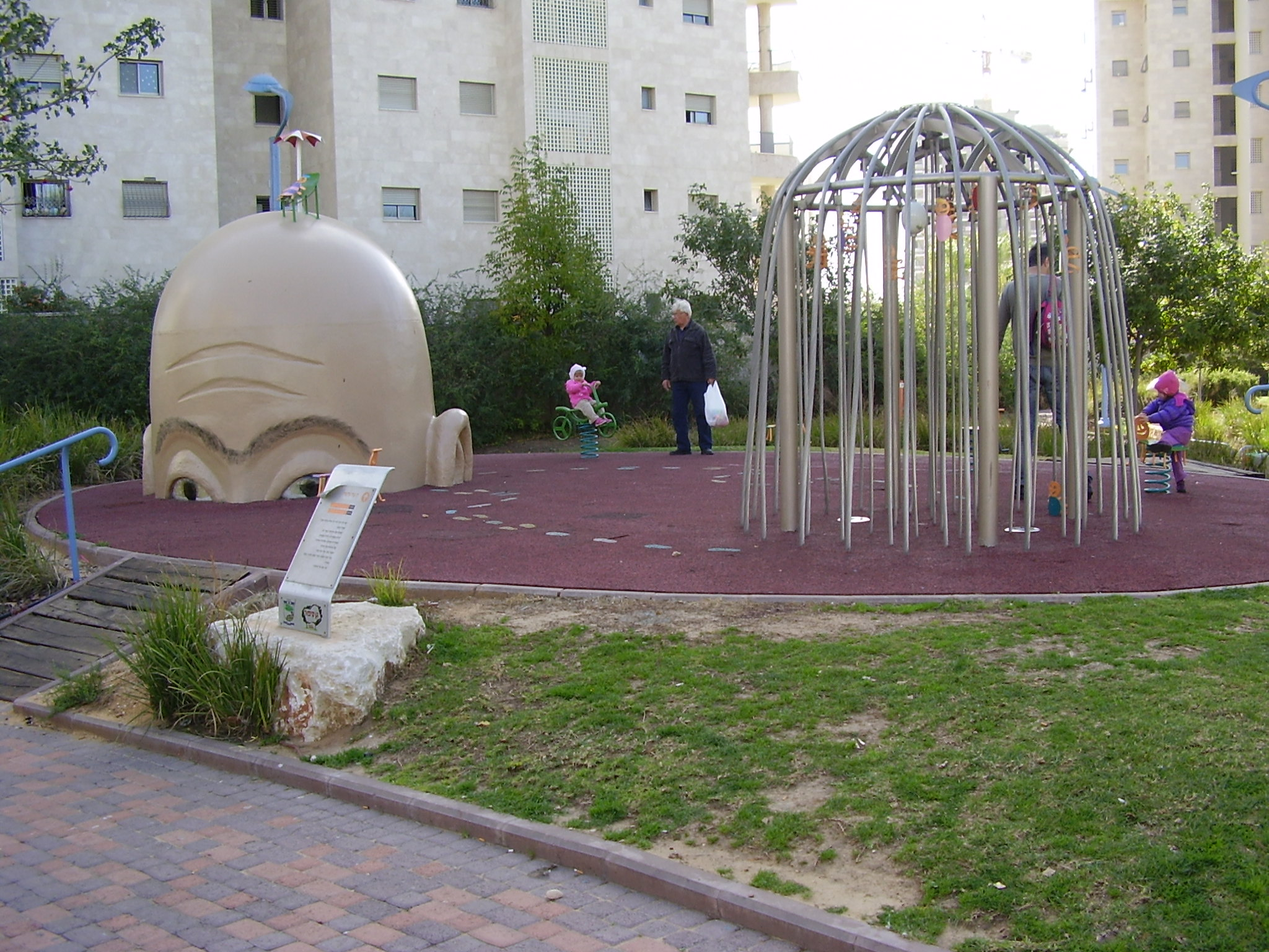 The louse Nechama story garden in Holon